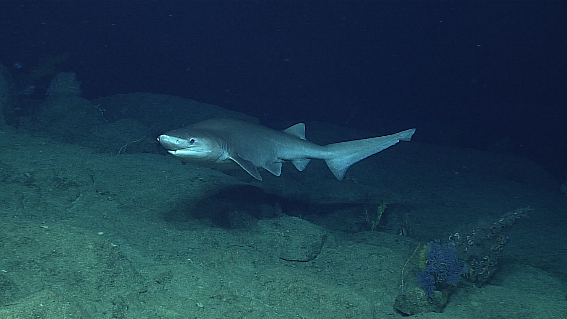 Sixgill shark (Hexanchus griseus) seen while exploring Santa Rosa Reef, south of Guam, during the first dive of the Deepwater Exploration of the Marianas expedition on April 20, 2016. Watch video: Learn more about the expedition